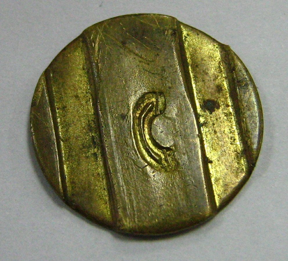 A quasi-coin used for payphones in Kazakhstan